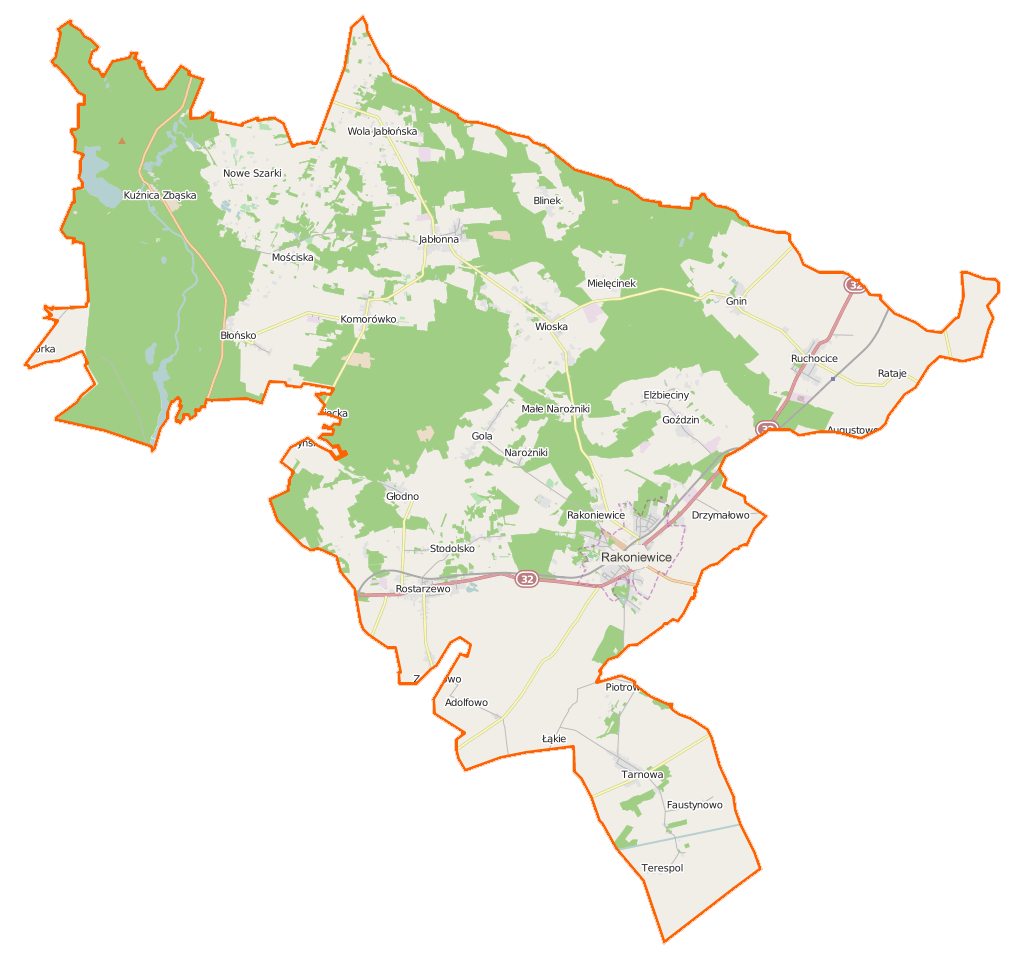 Map of Gmina Rakoniewice, PolandThis map of Rakoniewice (gmina) was created from OpenStreetMap project data, collected by the community. This map may be incomplete, and may contain errors. Don't rely solely on it for navigation.